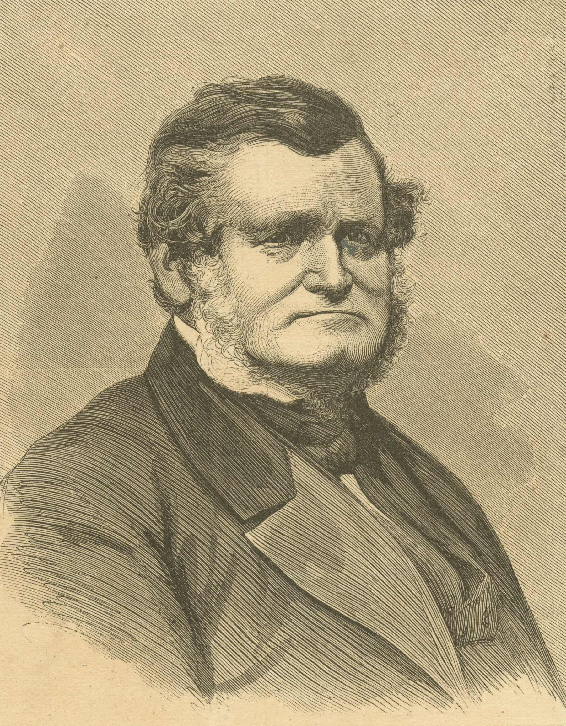 Title from Calendar of Emmet Collection. EM11781